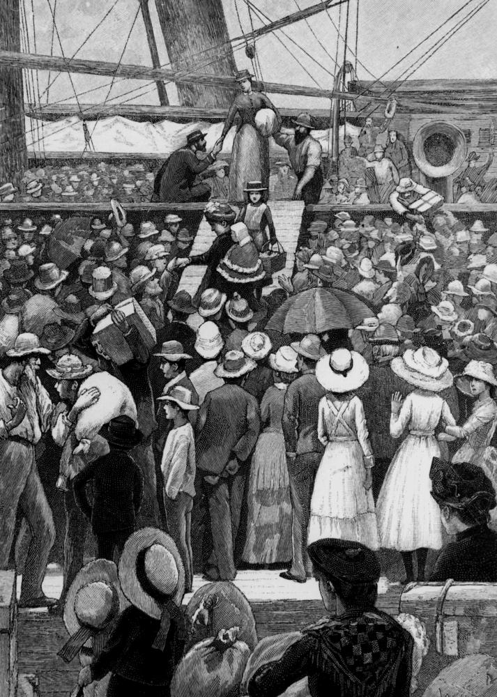 Drawing of migrants disembarking from a ship, ca. 1885 Drawing of a tightly-presseed crowd on a wharf and migrants disembarking from a ship, ca. 1885. Figures carry boxes and hold umbrellas. Women are assisted as they carry luggage and walk on the gangplank. One woman bears a child on her arm. The masts, rigging, sails, funnel and cabin of the ship can be seen.